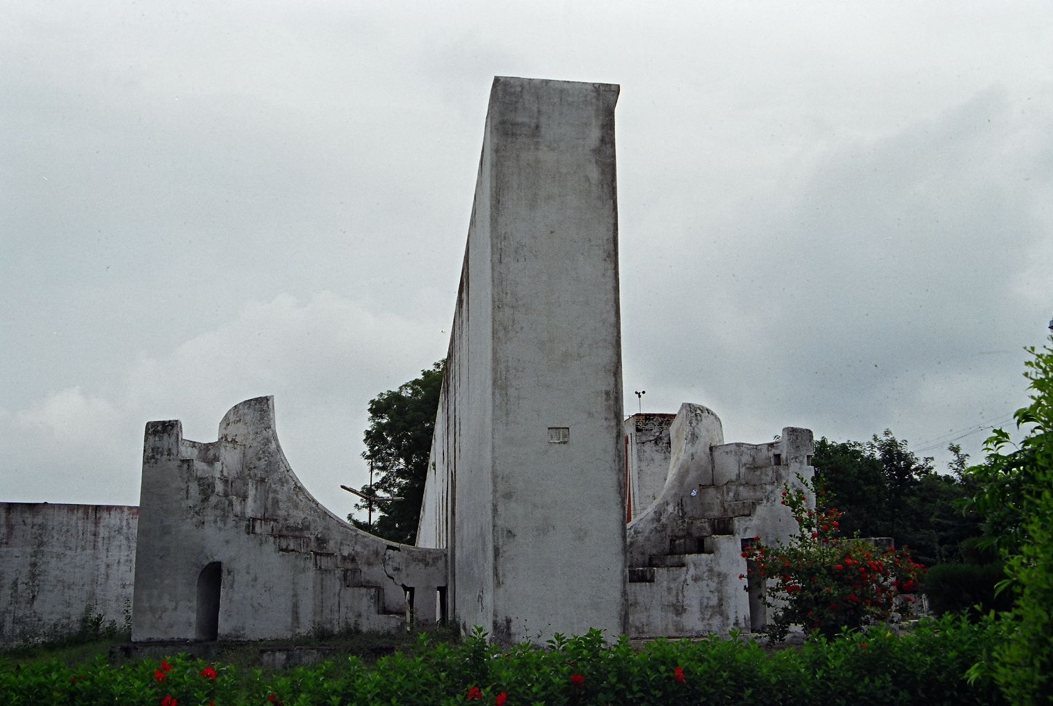 Sun Dial at the Ved Shala (Observatory)at Ujjain. Author: User:Clt13